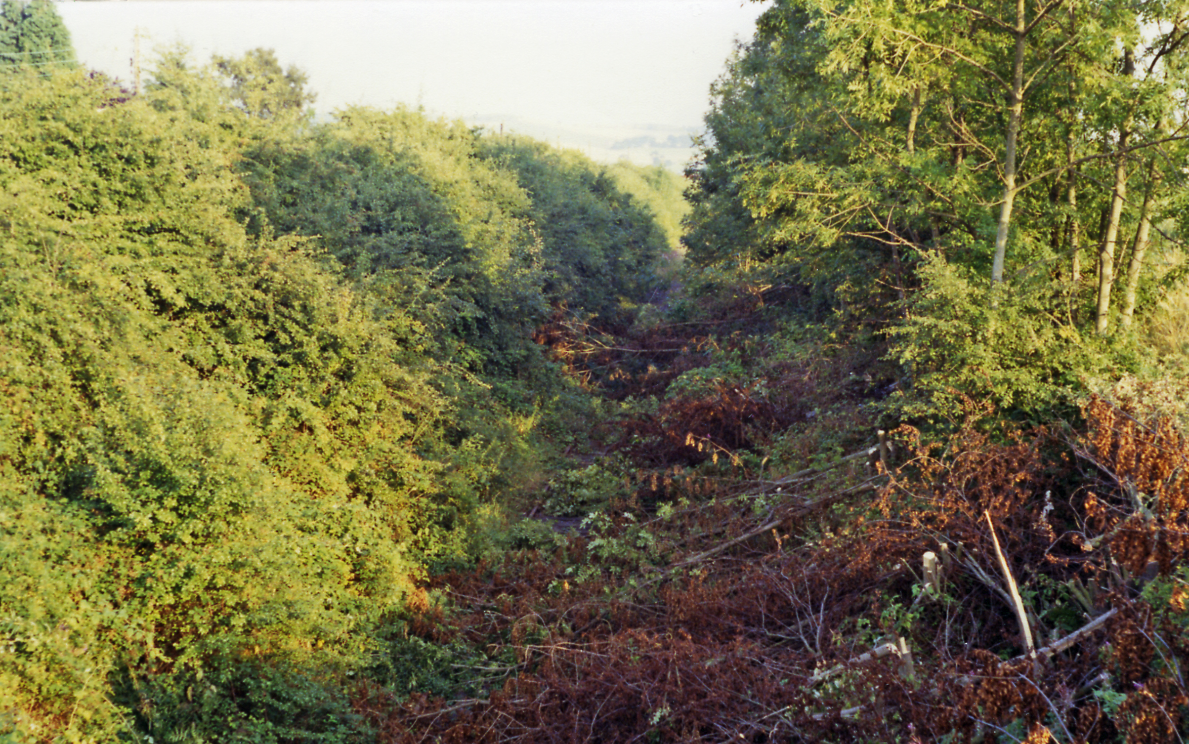 Trackbed of Alloa - Culross - Dunfermline ex-NB line at site of Clackmannan and Kennet station, 1991. View SE, towards Kincardine, Culross and Dunfermline. The station and passenger service ceased from 7/7/30, but they were open for goods until 28/12/64. In recent years (2008), however, the line has been reopened from Stirling and Alloa to allow coal to be brought from Hunterston to Longannet Power Station at Kincardine